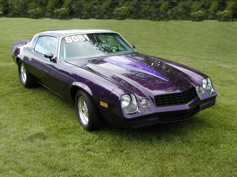 1981 Chevrolet Camaro, converted for drag racing